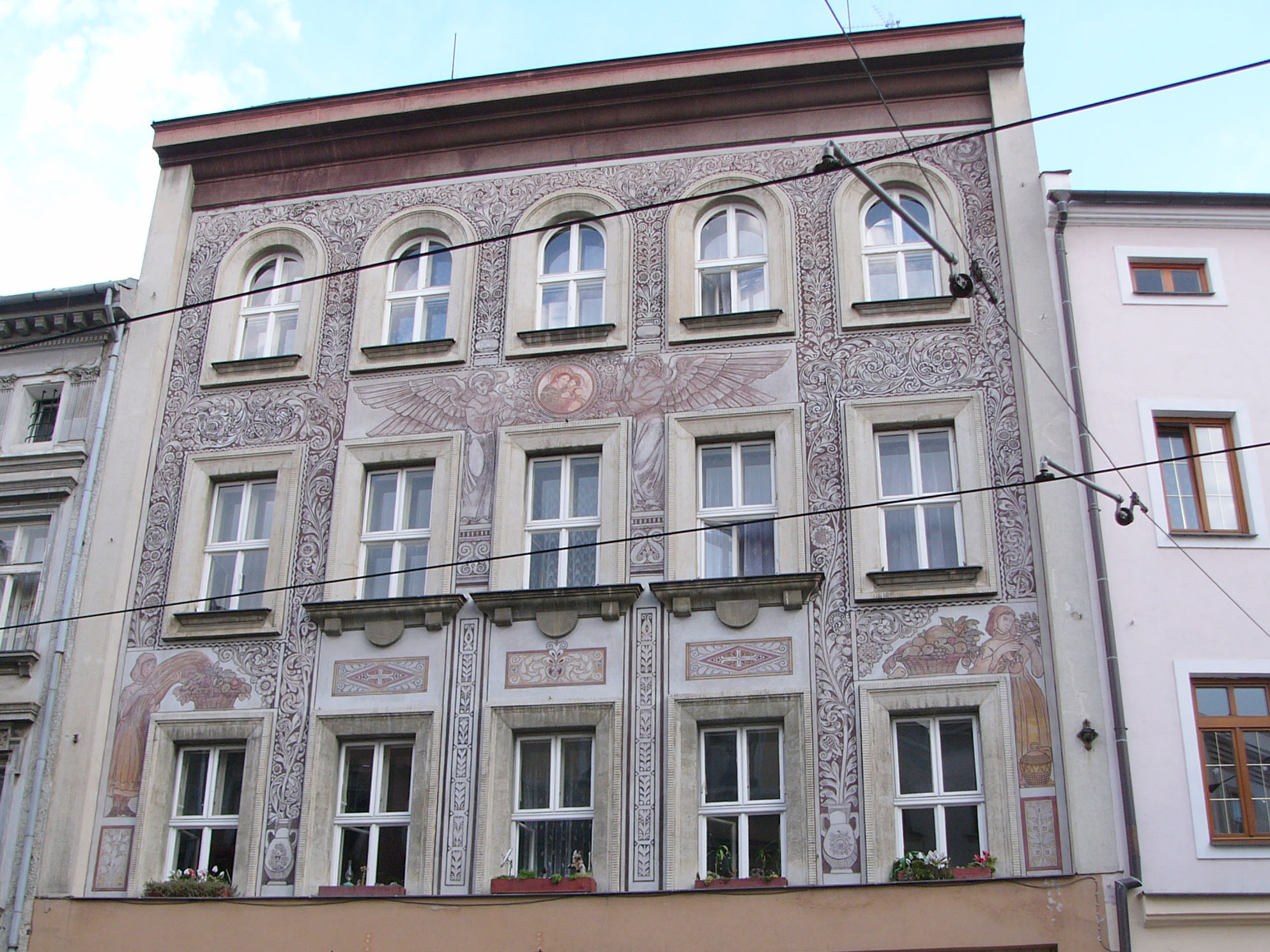 Frescos and sgraffitos in Olomouc (Czech Republic).